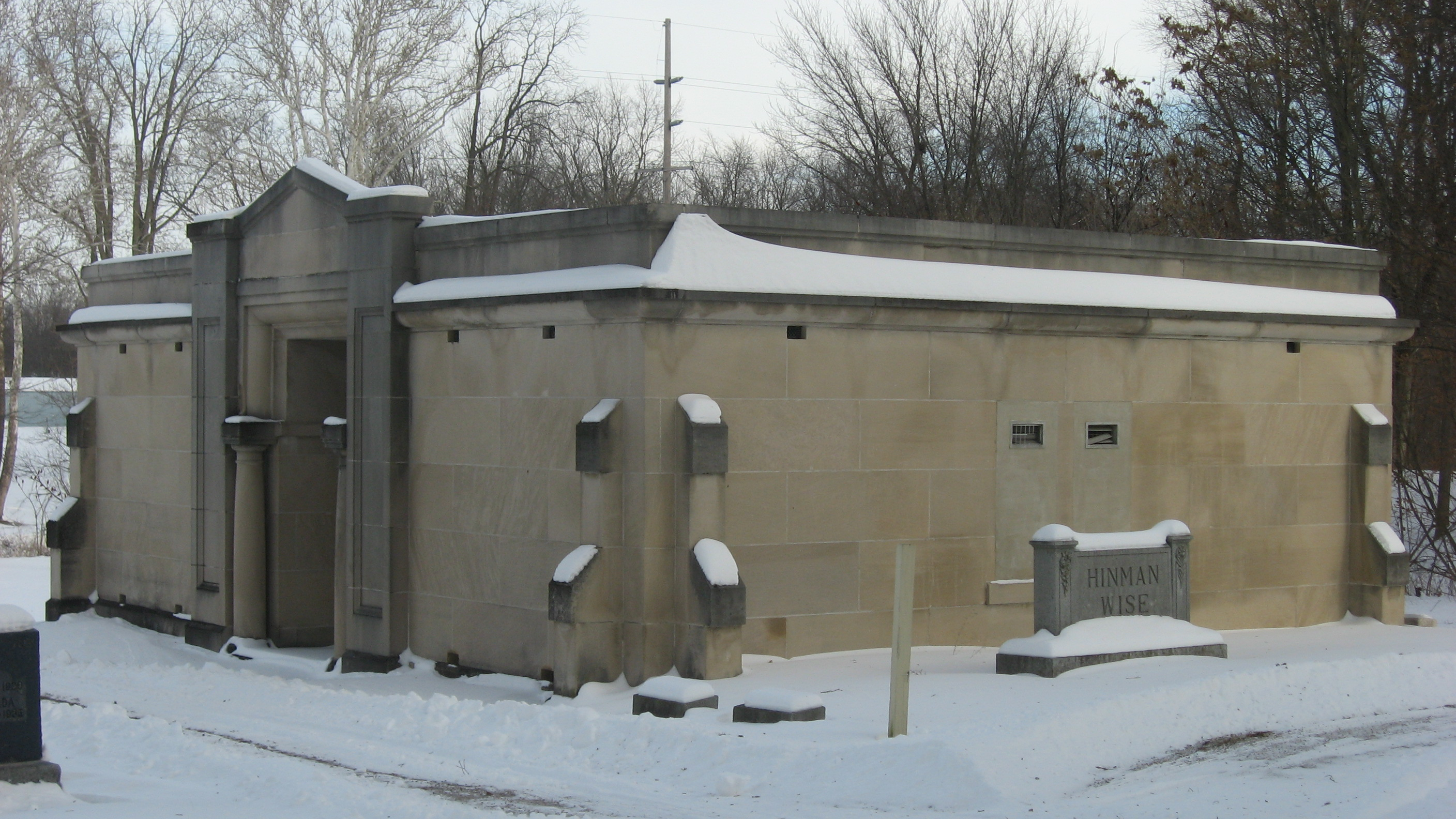 Front and southern side of the Waterloo Community Mausoleum, located off the eastern side of N. Center Street in Waterloo, Indiana, United States. Built in 1916, it is listed on the National Register of Historic Places.